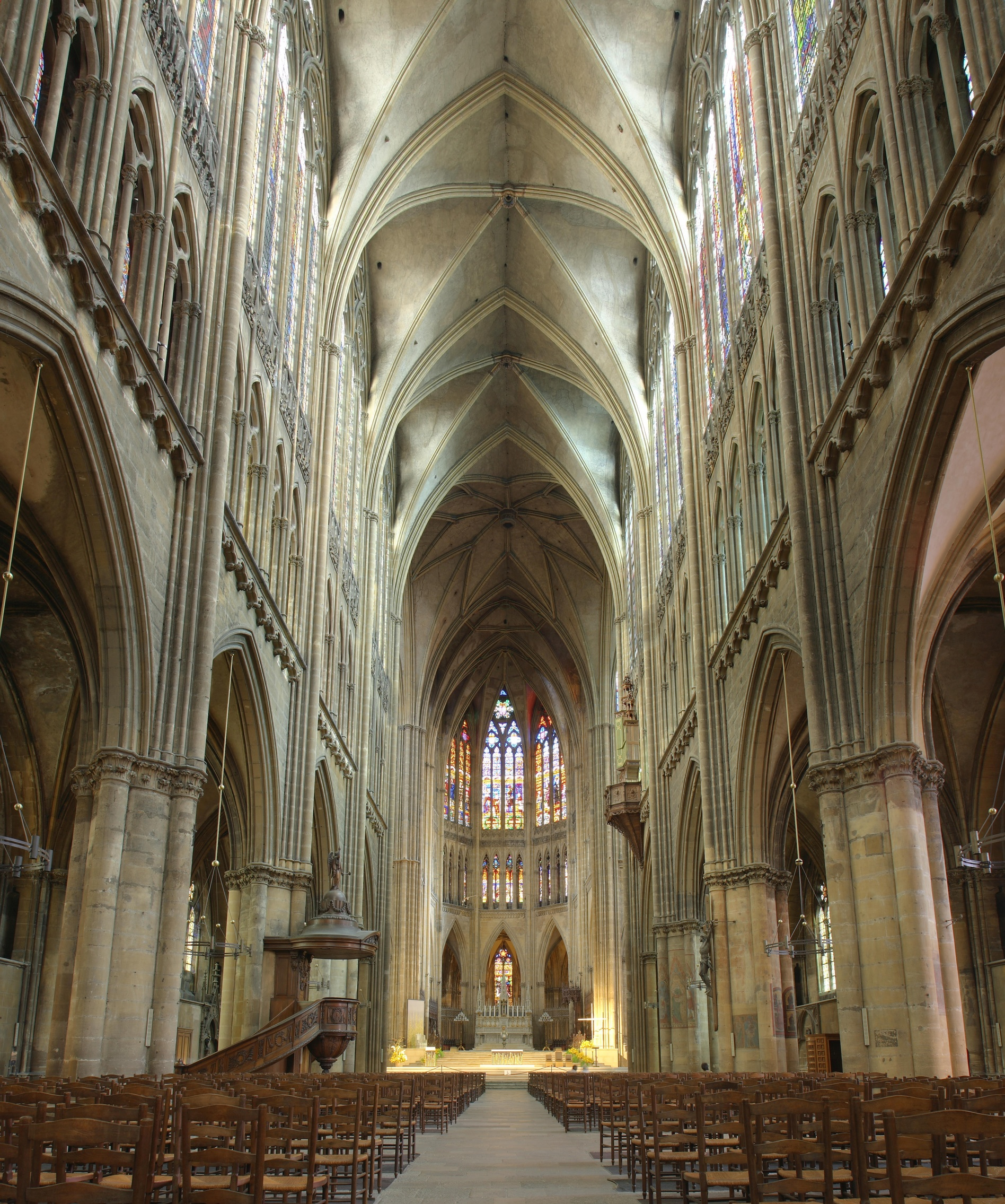 A vertical panoramic view of the Metz Cathedral's nave, in Metz, France. This picture is made from 2 HDR pictures stitched and perspective corrected with Hugin